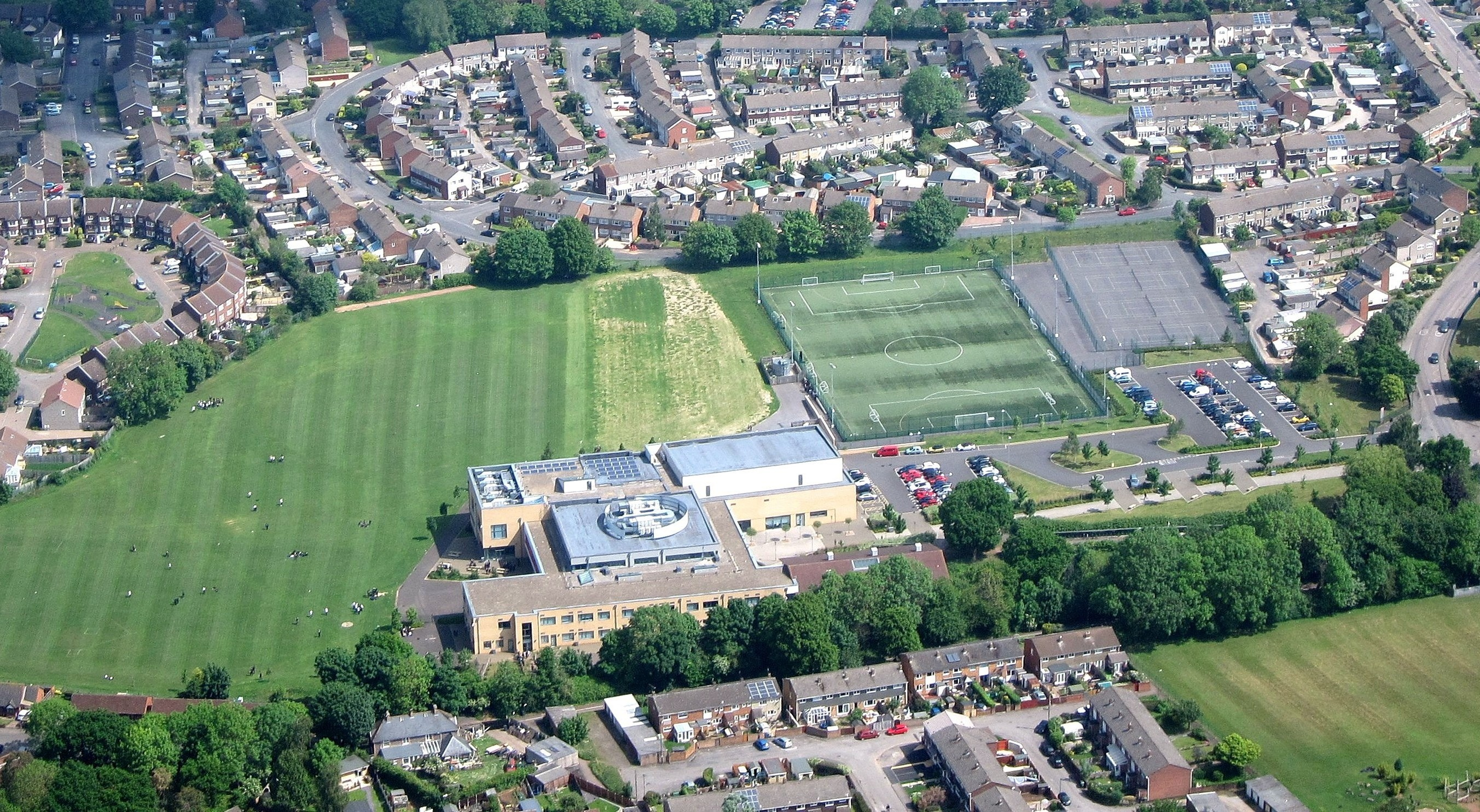 Yate Academy secondary school, Yate, South Gloucestershire, England. Taken from the (open) window of a Piper Cherokee Warrior during a pleasure flight from Gloucestershire Airport, Cheltenham.